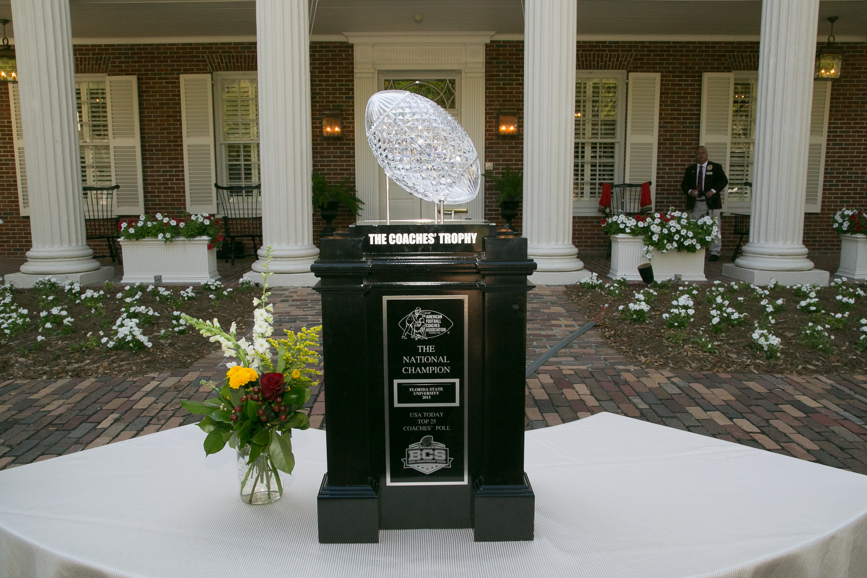 FSU Day Reception